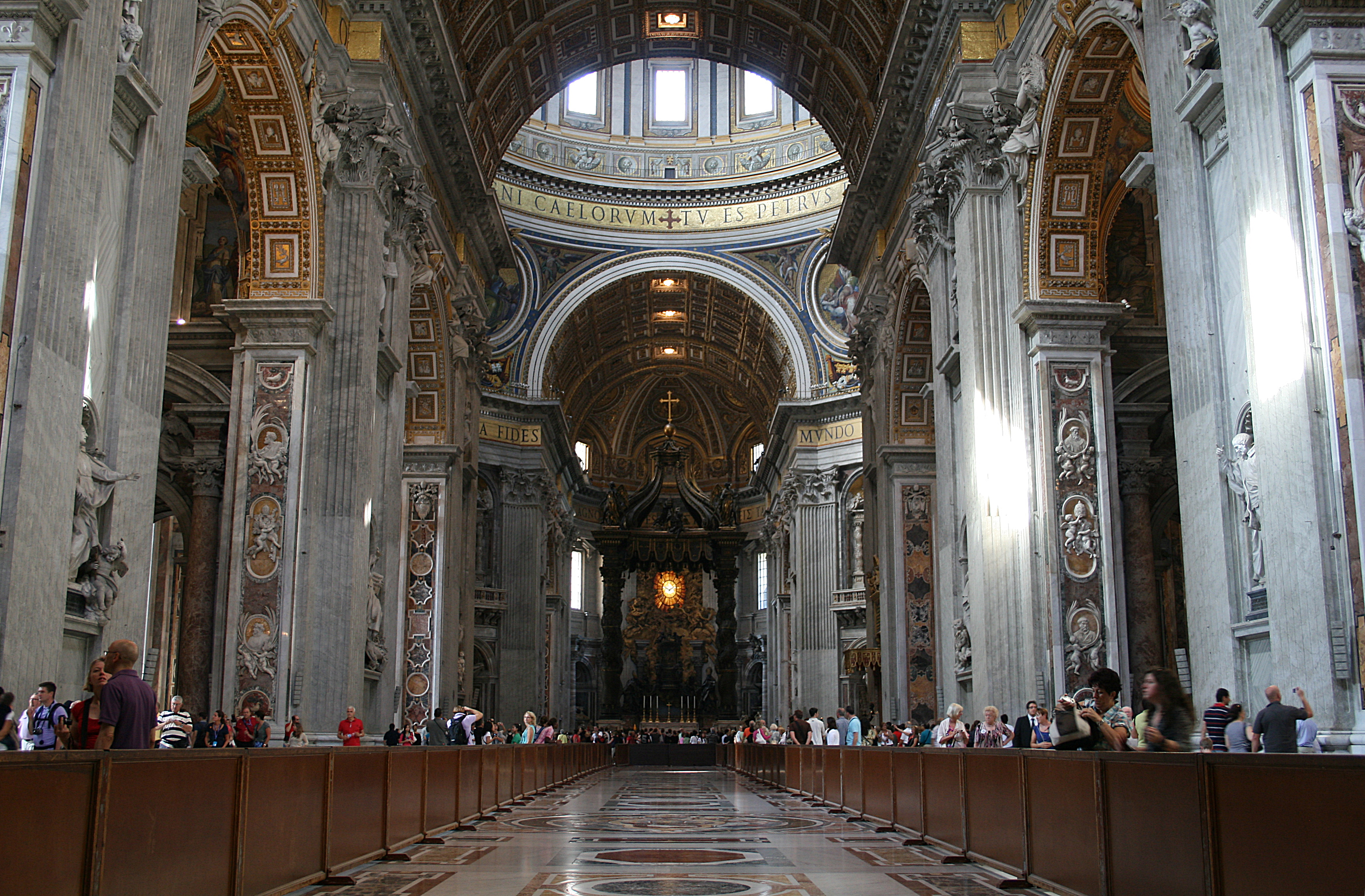 Nave of the St. Peter's Basilica in Vatican City.